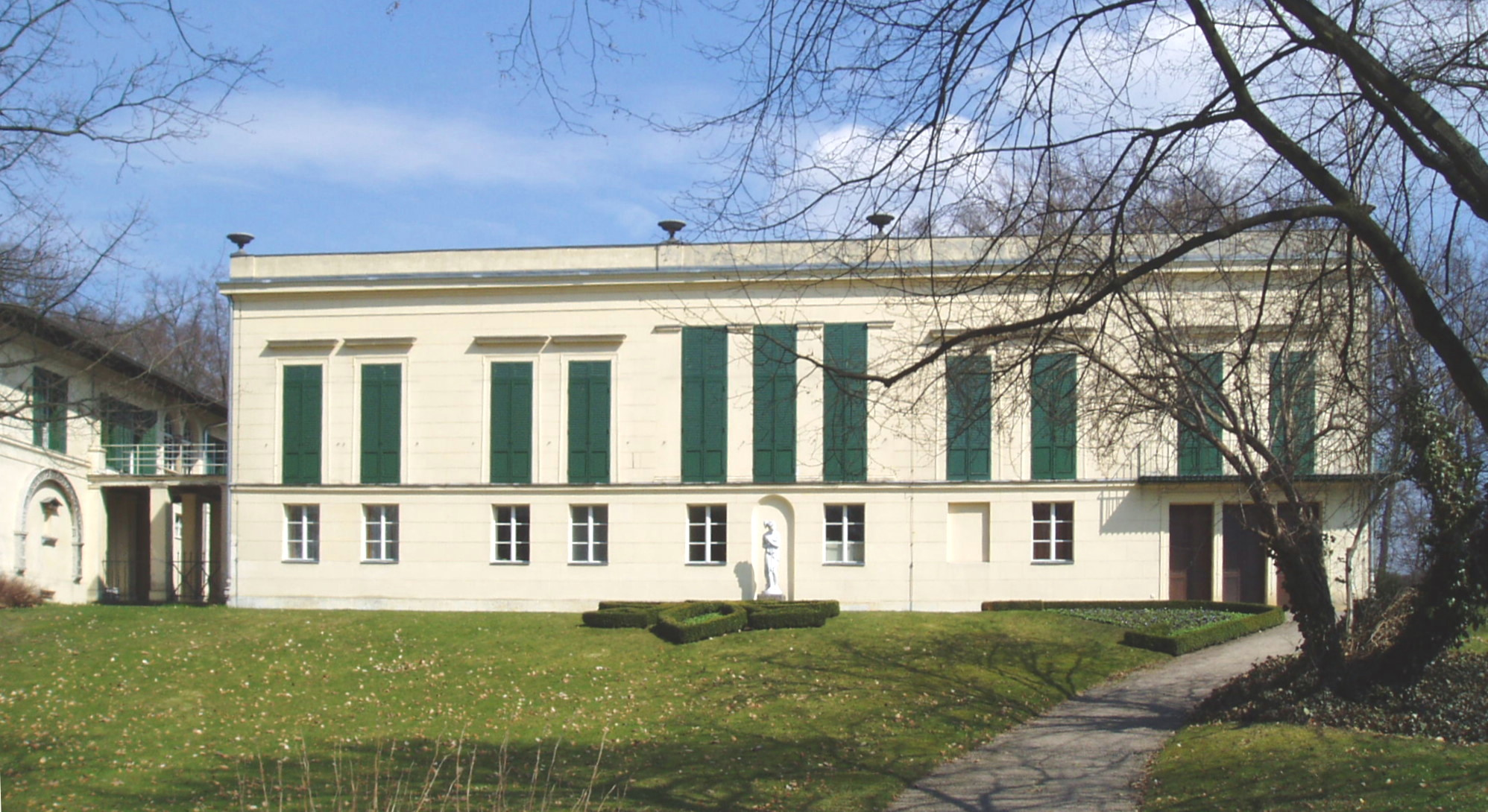 Glienicke castle (west side), Berlin, Germany